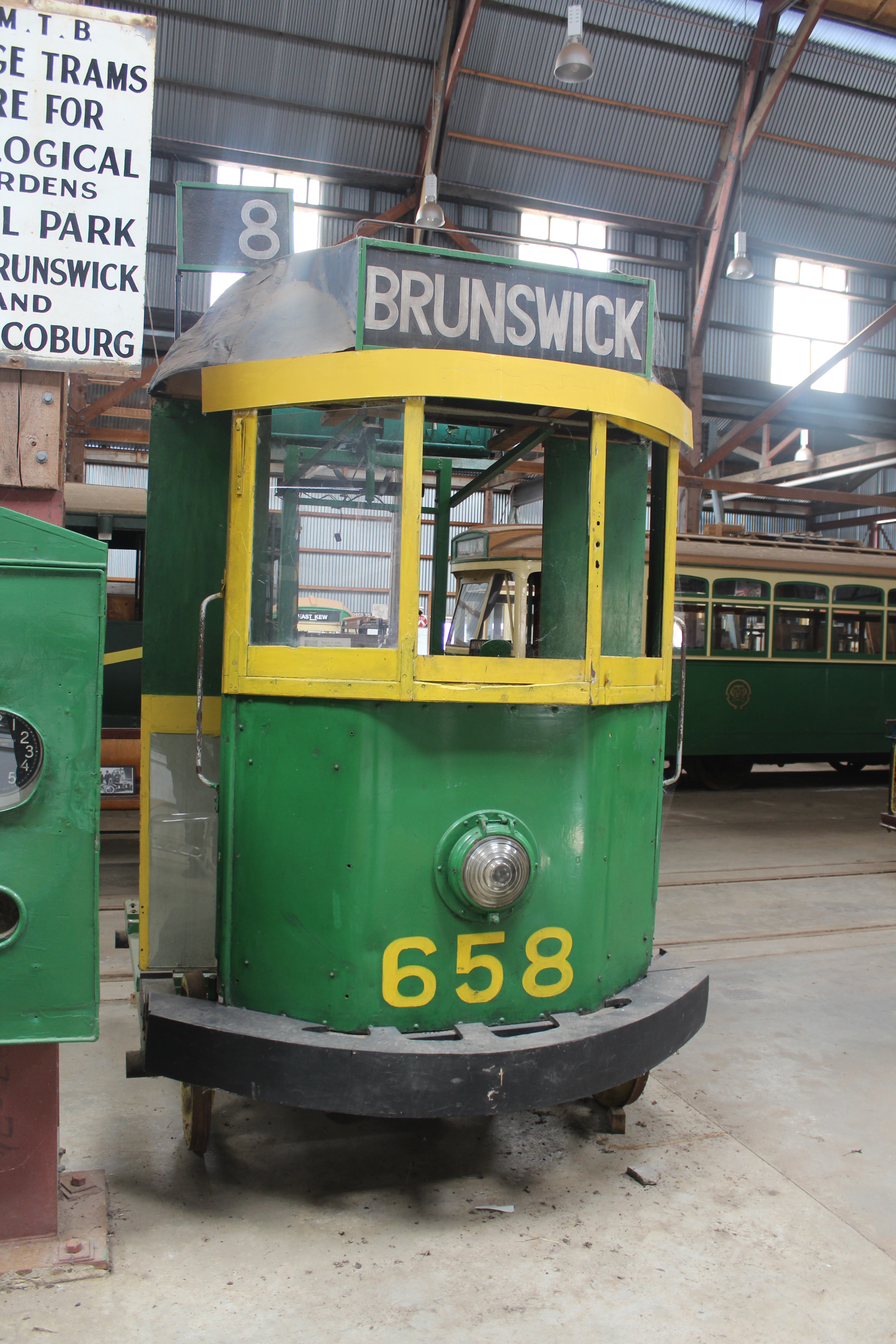 The tram from the film Malcolm, at the Tramway Museum Society of Victoria's site (Melbourne Tramway Museum) in Bylands, Victoria.